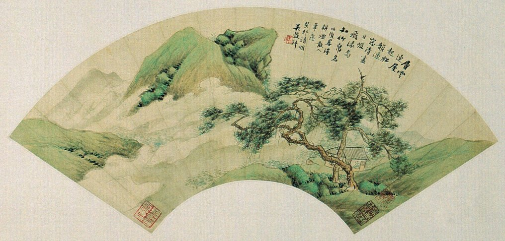 Pine Clouds, 1903 painting by Wu Ku-hsiang (1848-1903), Honolulu Academy of Arts